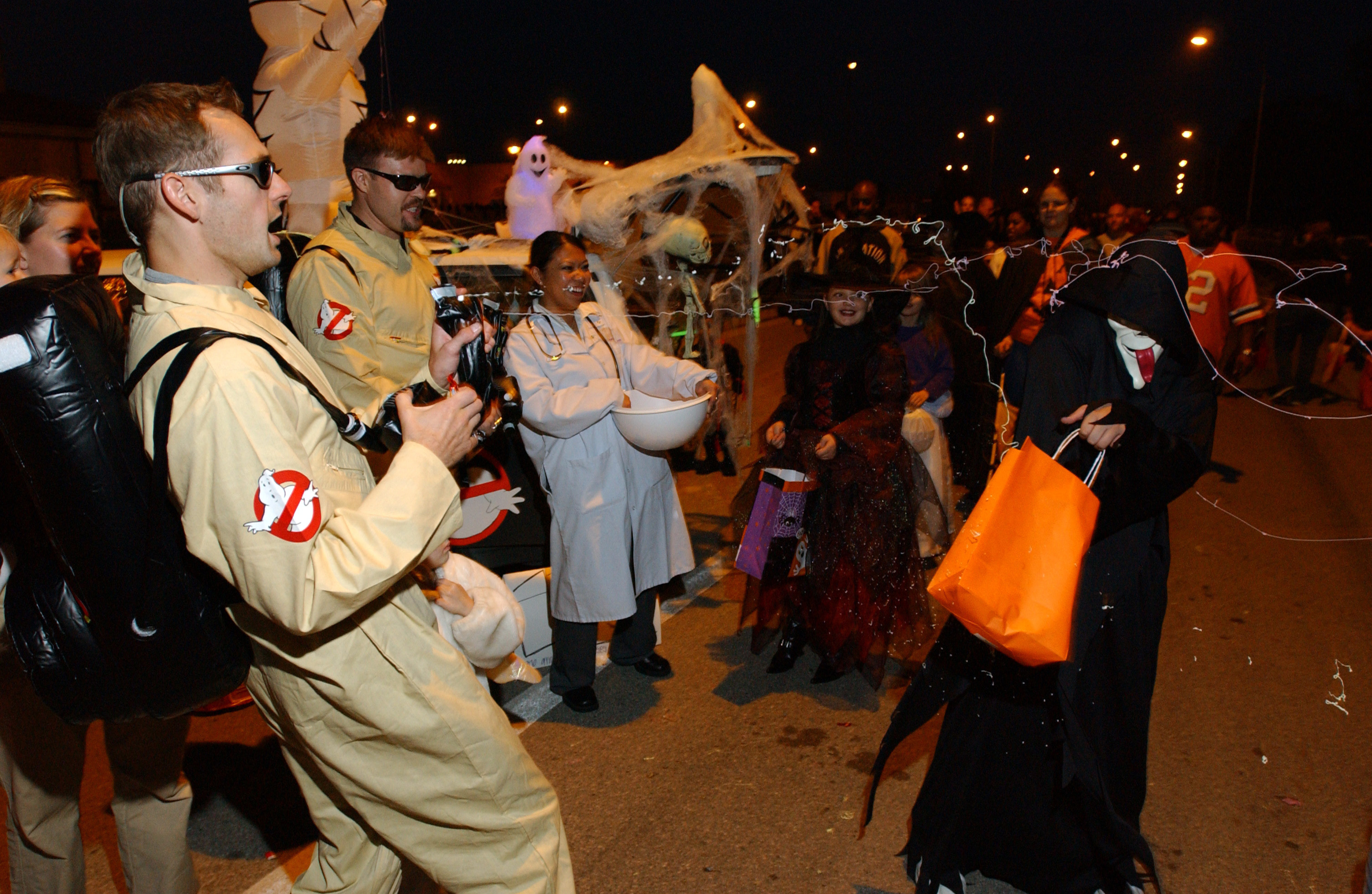 U.S. Air Force 31st Medical Group Staff Sgt. Vanessa Almanzor (center), Mr. Steve Juhasz and 31st Dental Squadron Capt. Brady Thomson, dressed as Ghostbusters, spray kids with aerosol string and distribute candy during the Aviano Air Base (AB), Italy, "Trunk or Treat" event, on Oct. 29, 2005. Aviano AB Airmen will operate a haunted house and a custom version of trick or treating out of car trunks during Halloween weekend.